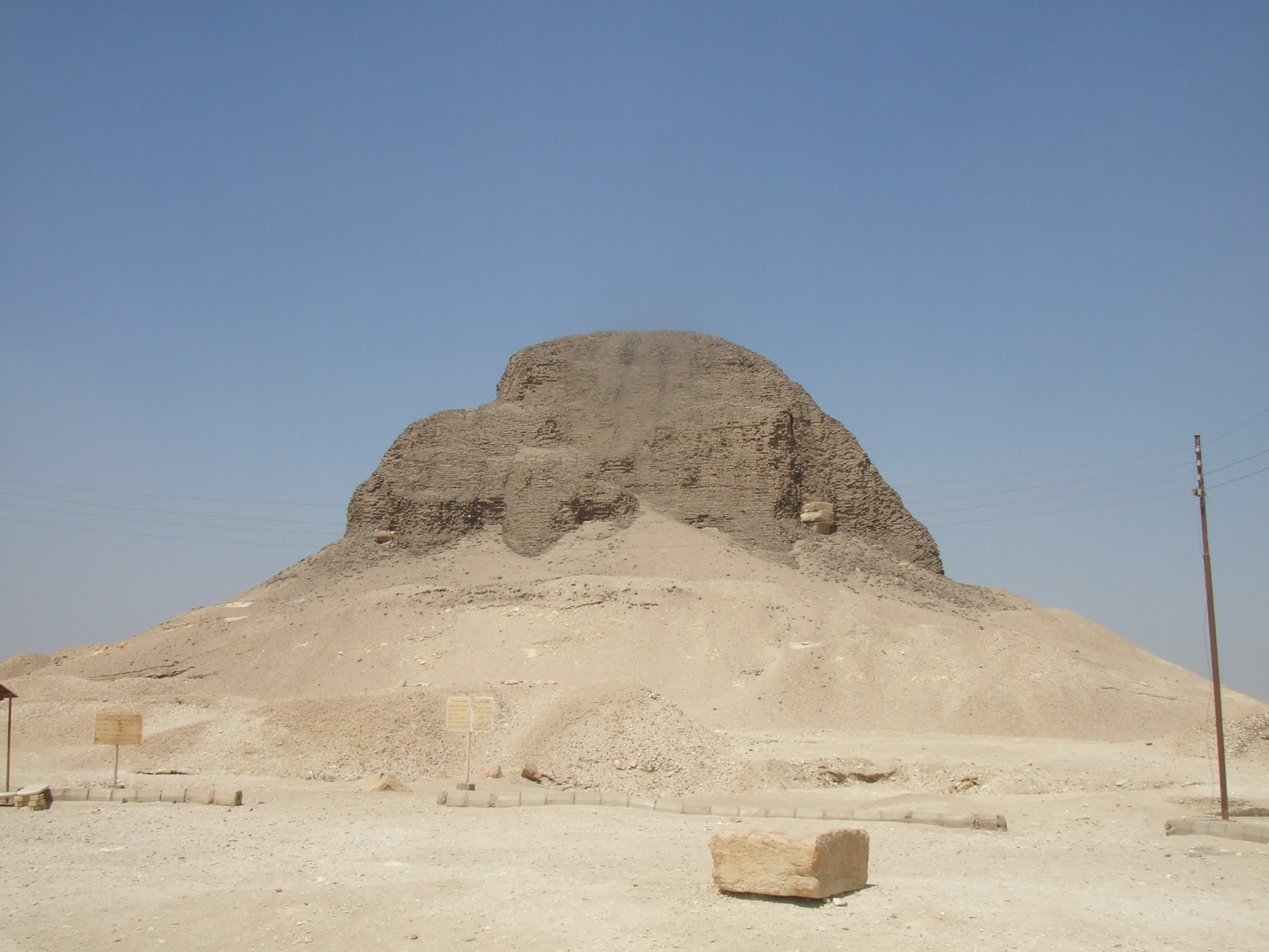 El Lahun Pyramid